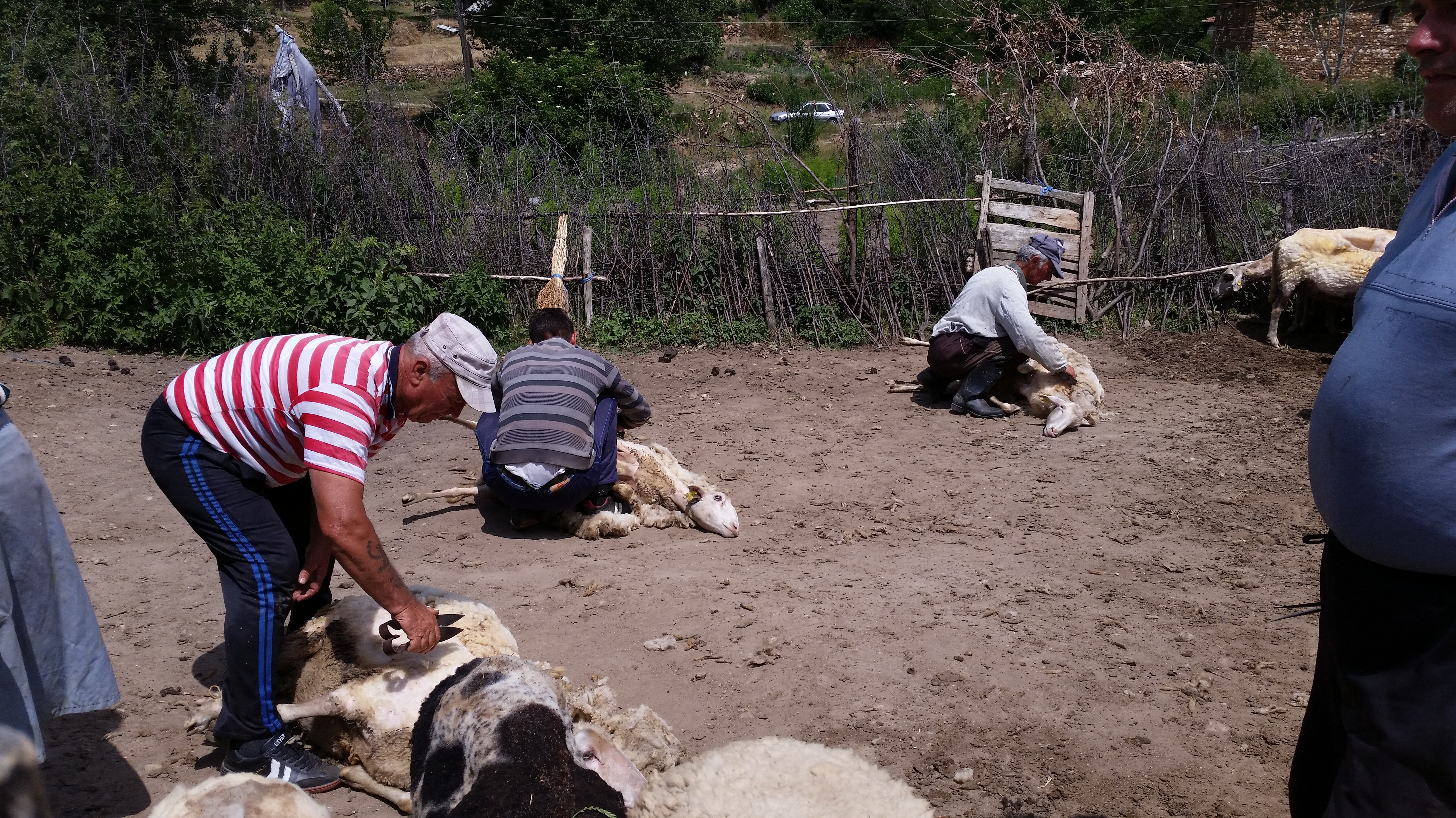 Sheep shearing the village of Bonče, Prilep Municipality, Macedonia